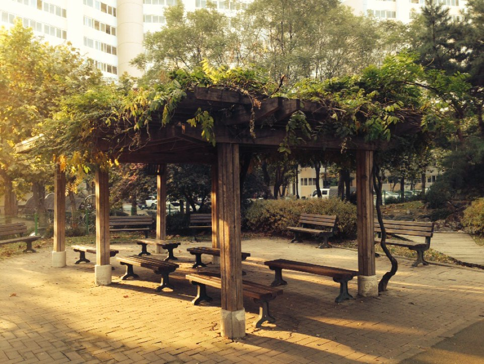 A pergola in Korea